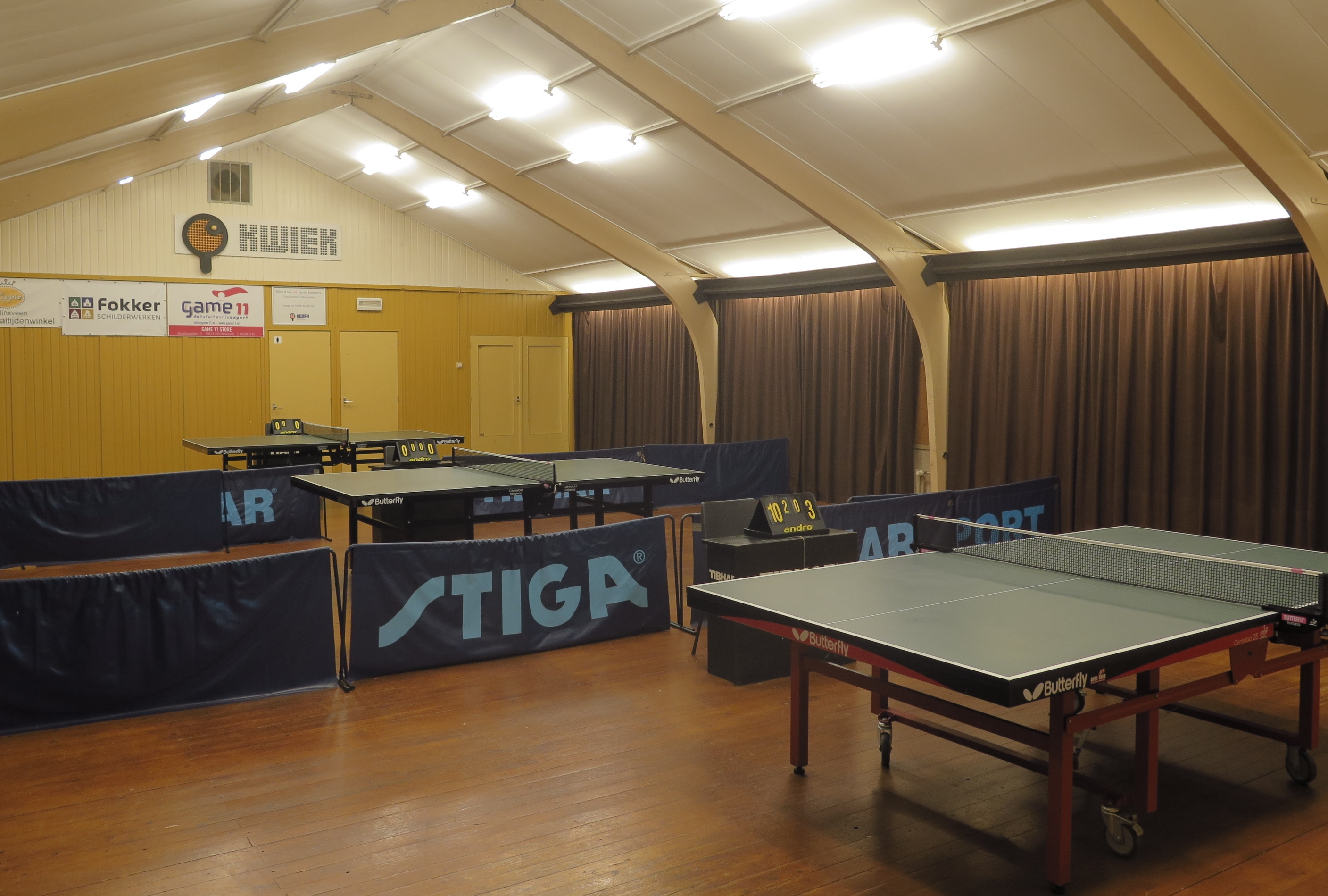 Interior of sports accommodation address Jan Willem Frisoweg 43-A Waddinxveen (NL)